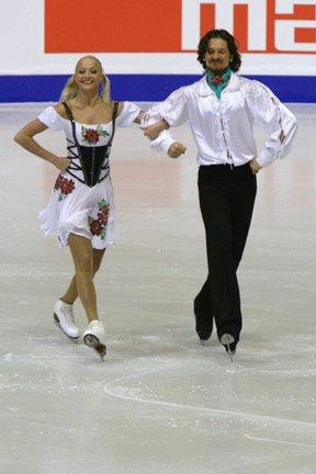 Oksana Domnina & Maxim Shabalin during their Yankee Polka compulsory dance at the 2008 European Figure Skating Championships